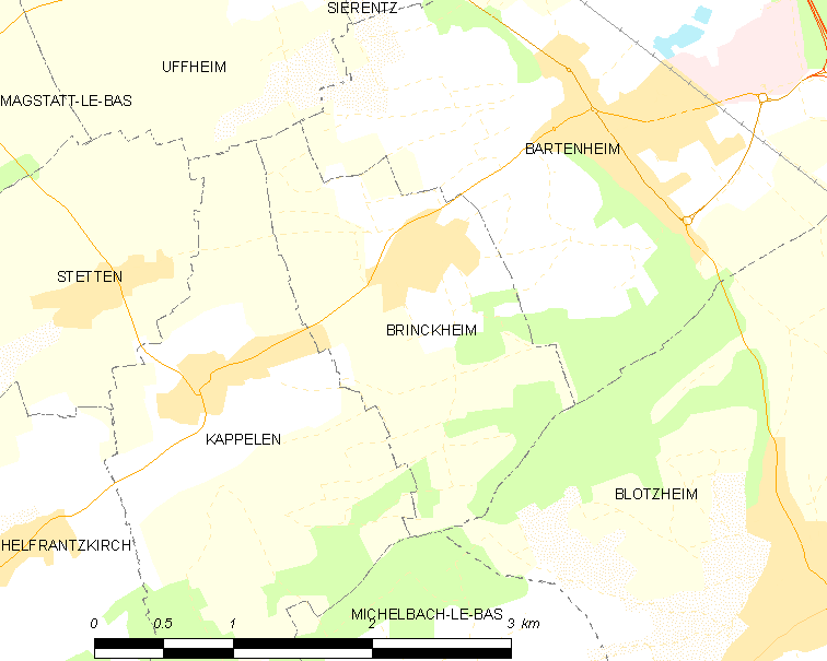 Map of French municipality